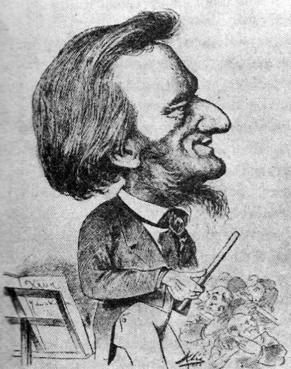 Cartoon of Richard Wagner with exaggerated 'Jewish' features, published 1873